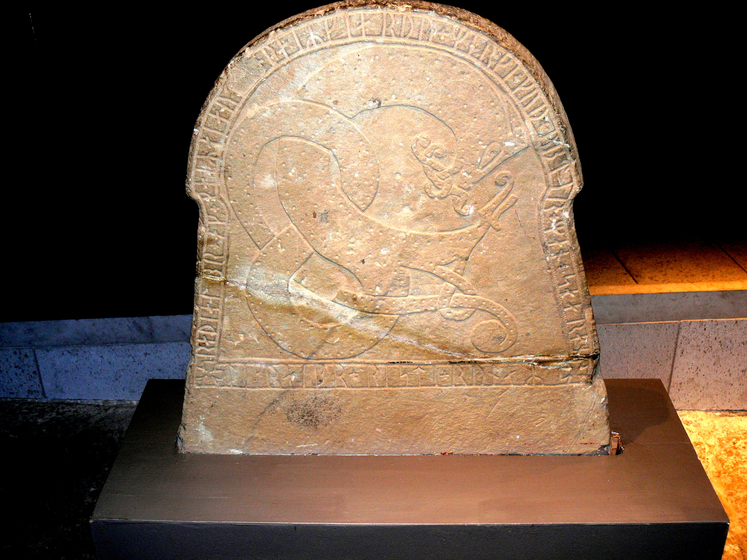 Fornsalen Museum, Visby ( Gotland ). Early Runestone. G 113 side B.